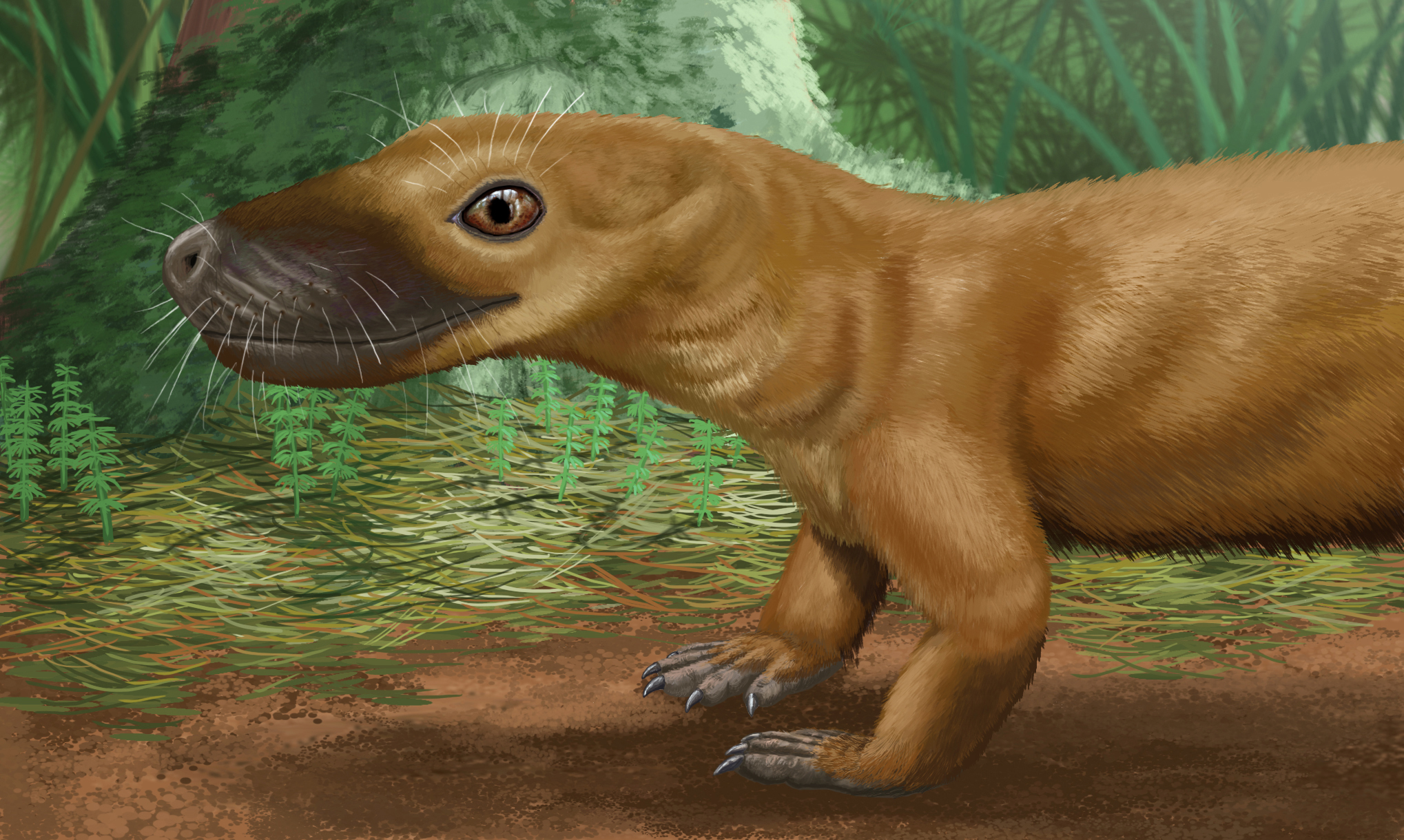 Life restoration of Silphedosuchus orenburgensis. Based on figure 31 of "Permian and Triassic therocephals (Eutherapsida) of Eastern Europe" by M. F. Ivakhnenko (Paleontological Journal 45 (9): 981-1144).